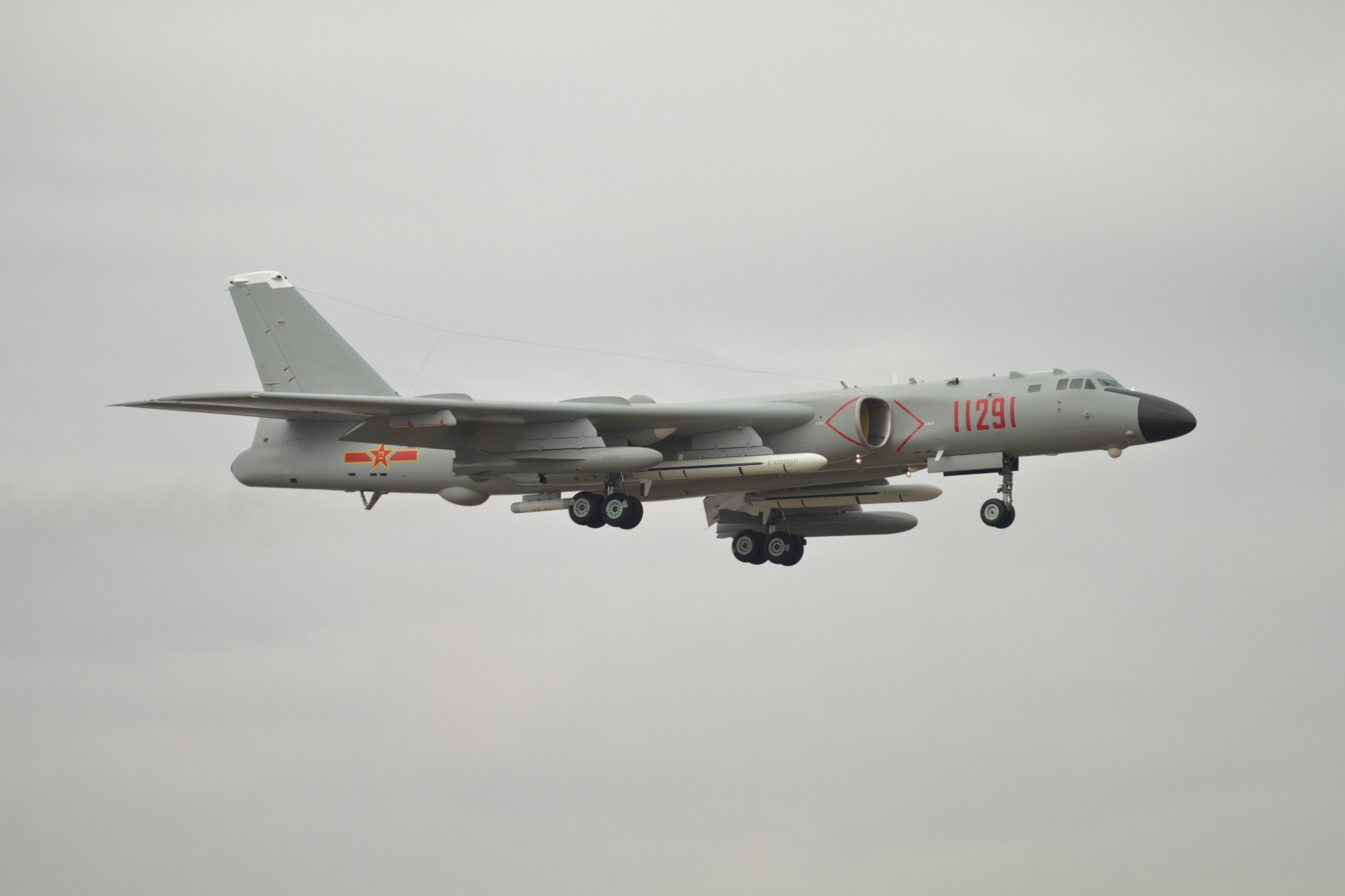 A Xian H-6K bomber landing at Zhuhai Jinwan airport ahead of Airshow China 2018.